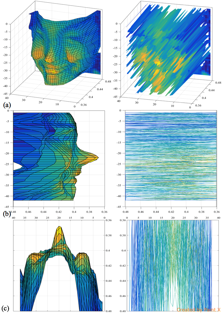 Experiment in Matlab about improving the post capturing resolution in ToF camera.